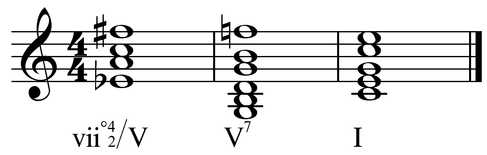 viio/V - V - I chord progression. Common in ragtime.